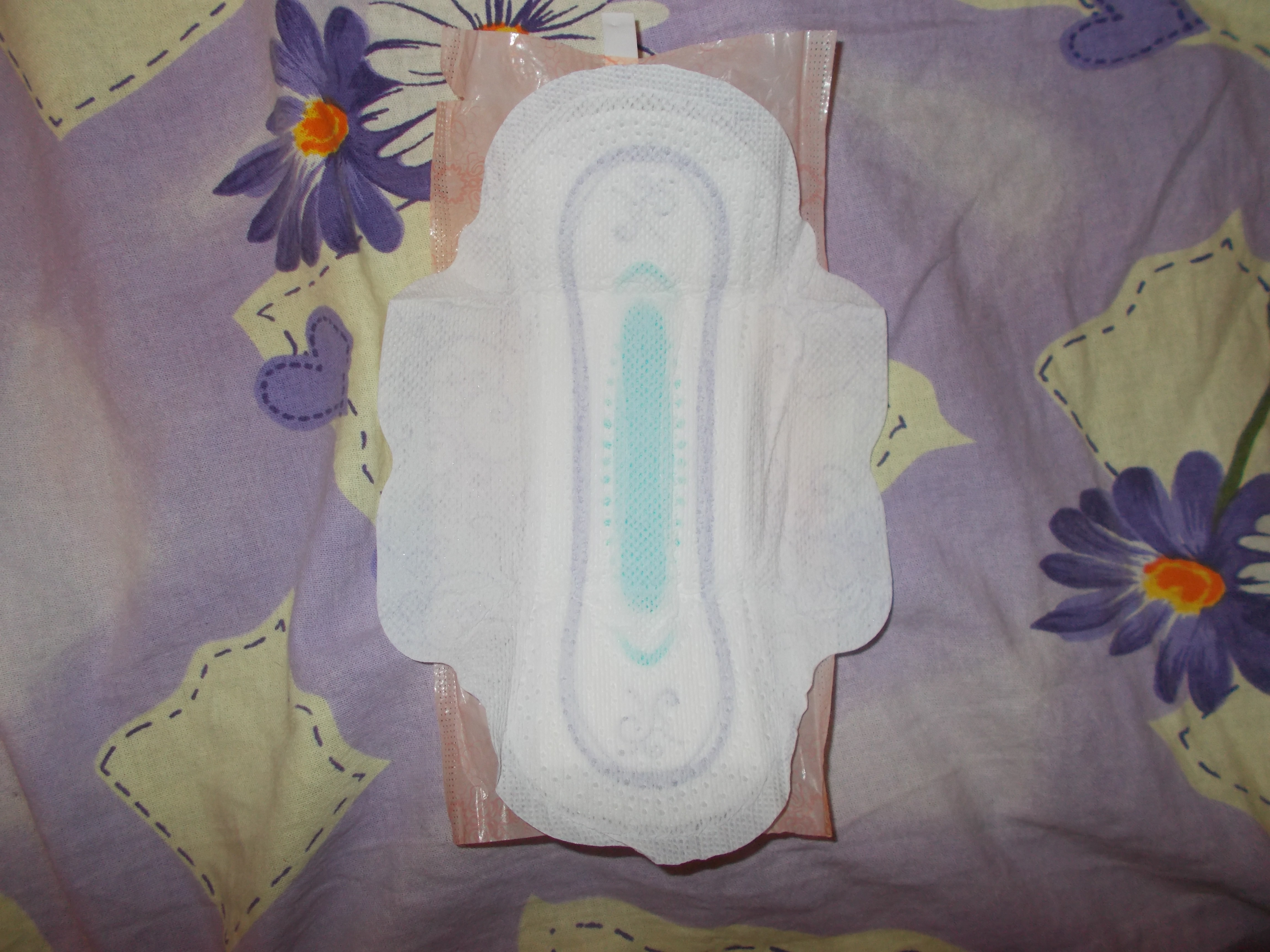 always